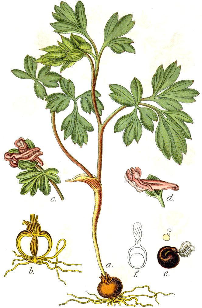 Corydalis intermedia (L.) Mérat, syn. Corydalis fabacea (Retz.) Pers. (1807), Fumaria fabacea Retz. Original Caption Mittlerer Lerchensporn, Fumaria fabacea